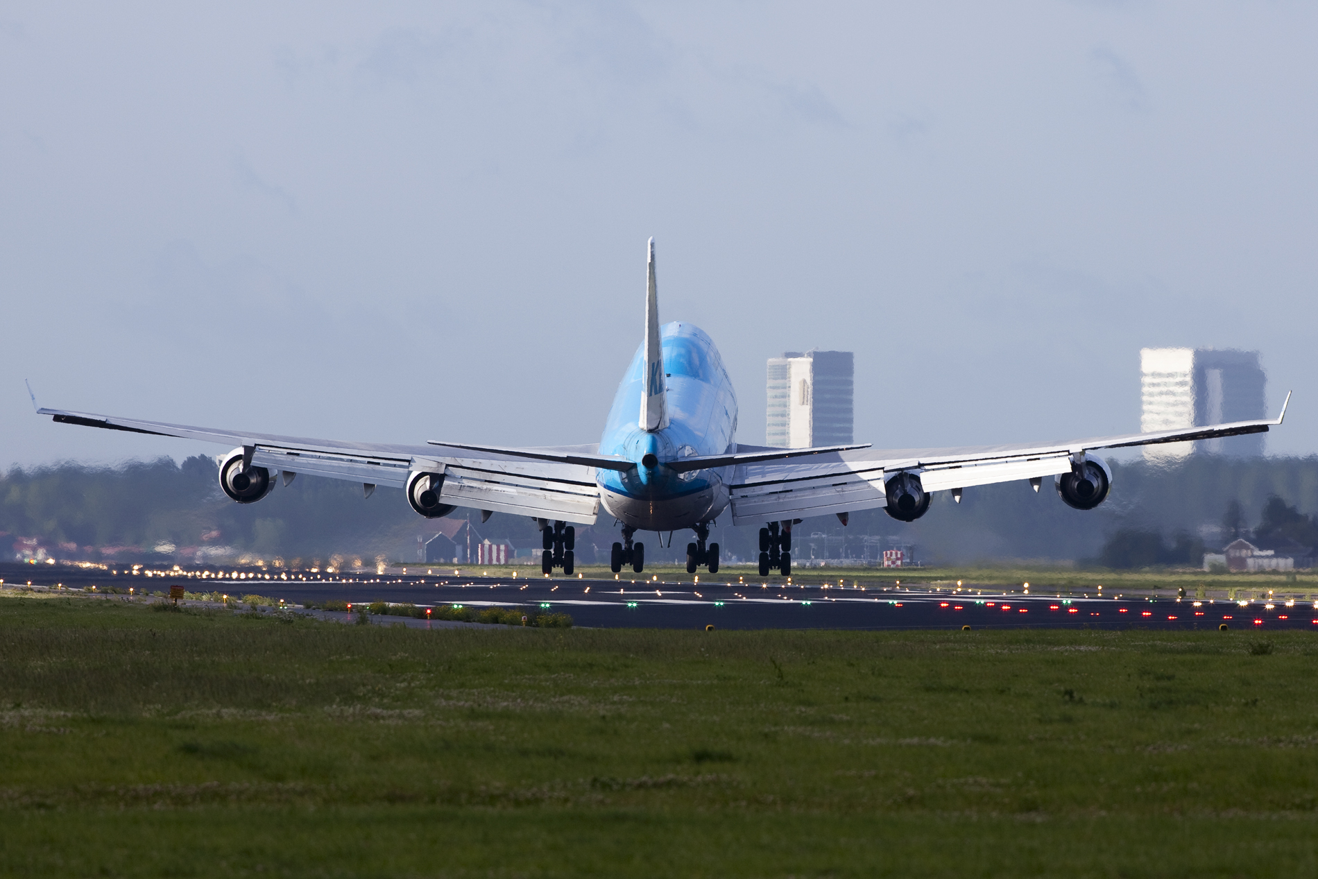 Schiphol